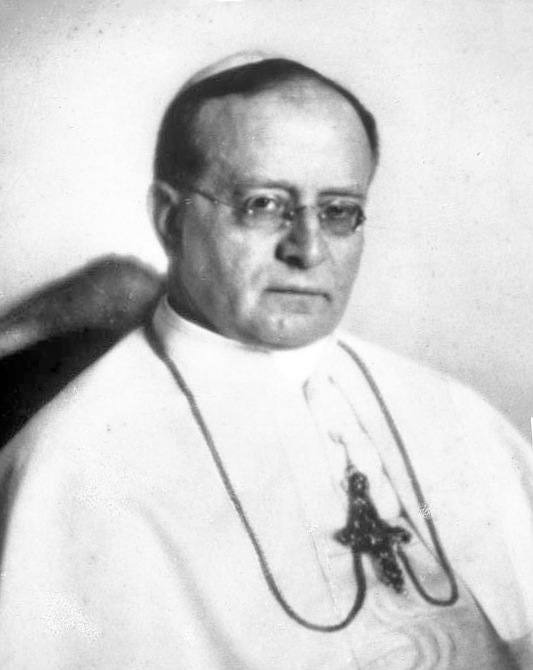 Title: Papst Pius XI. Extra information: Porträt von Papst Pius XI. People in the image: Pius XI.: Papst, # Additional information: * Ritratto di papa Pio XI, 1922. Factual corrections and alternative descriptions are encouraged separately from the original description. Additionally errors can be reported at this page to inform the Bundesarchiv. Original historic description